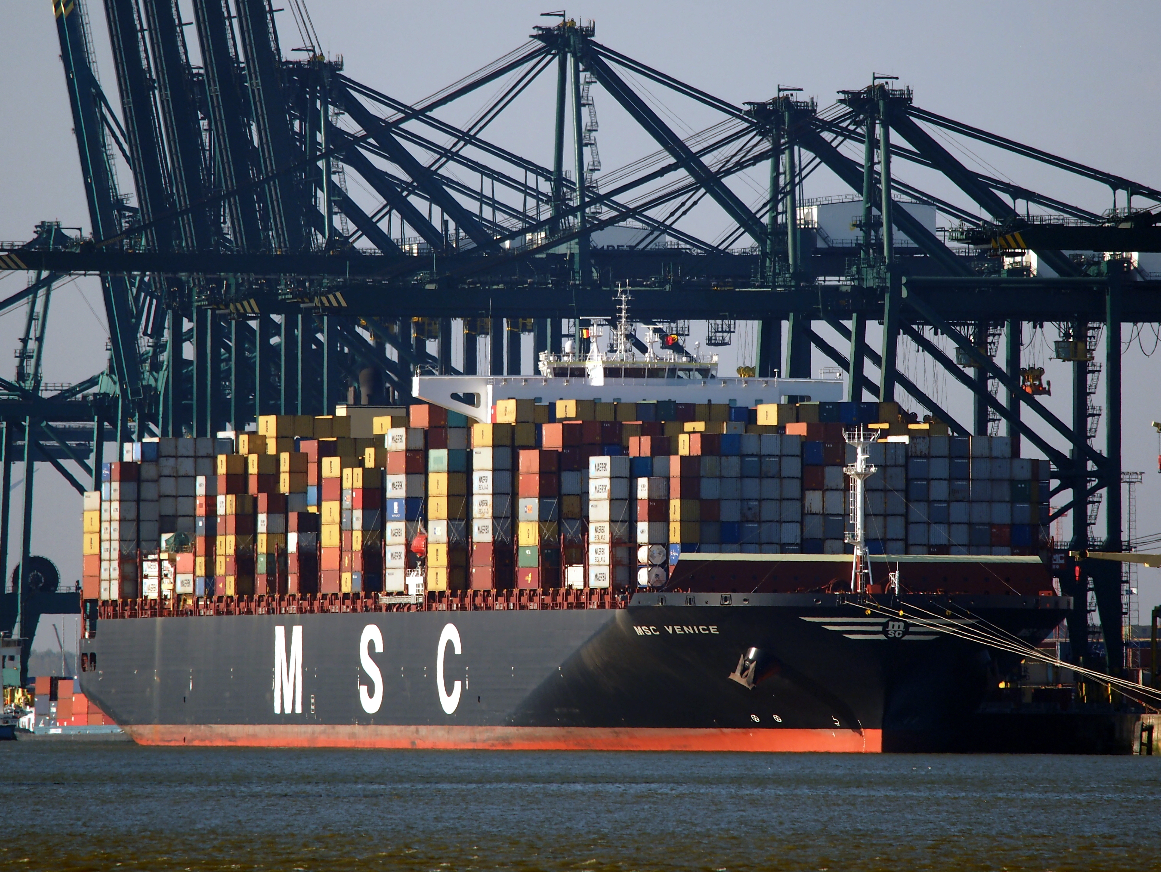 Photographed at the harbor of Antwerp.